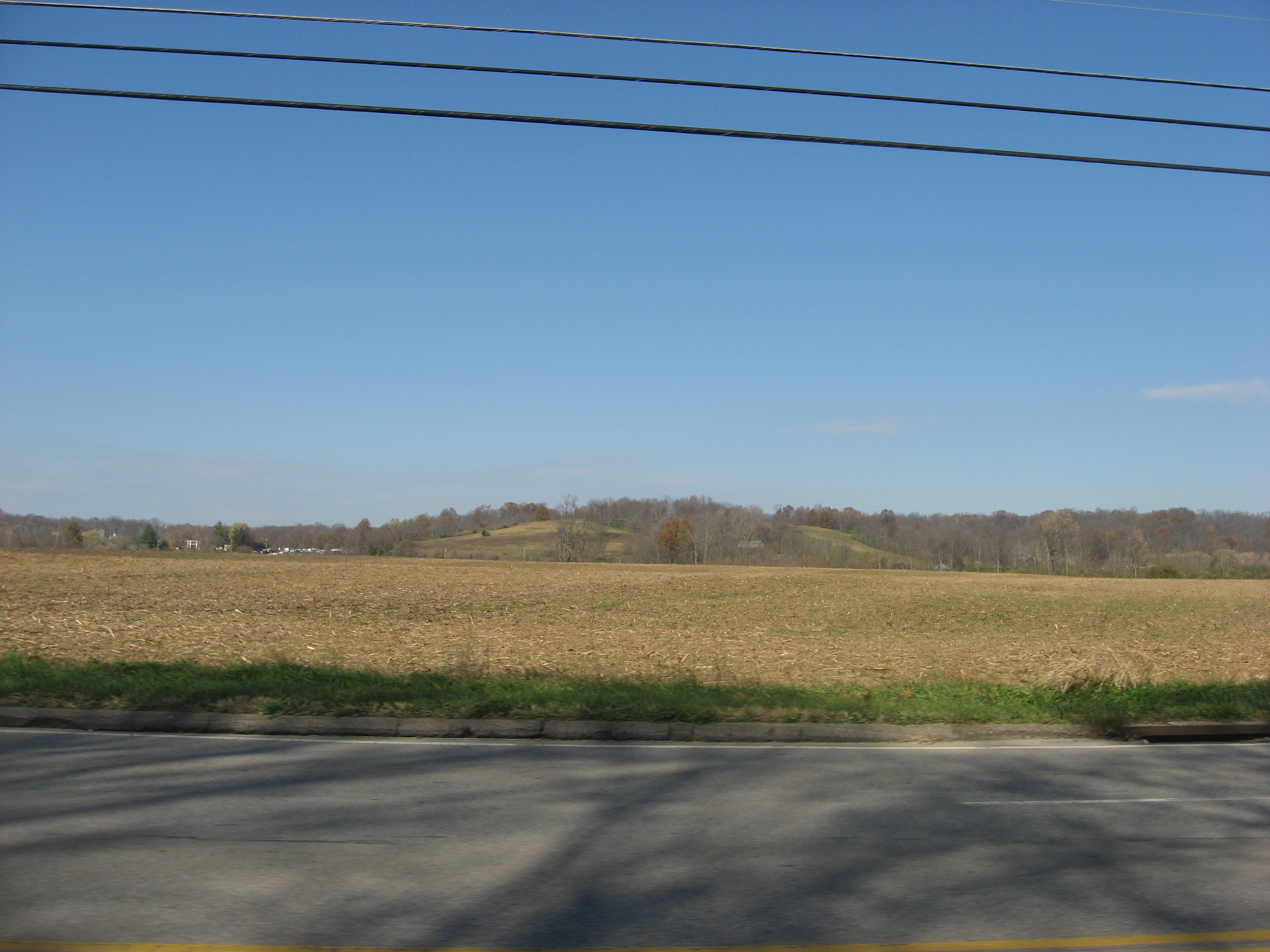 Fields on the northern side of U.S. Route 50 west of Elizabethtown in Whitewater Township, Hamilton County, Ohio, United States. These fields are part of a group of archaeological sites known as the Wesley Butler Archeological District; the district is listed on the National Register of Historic Places.